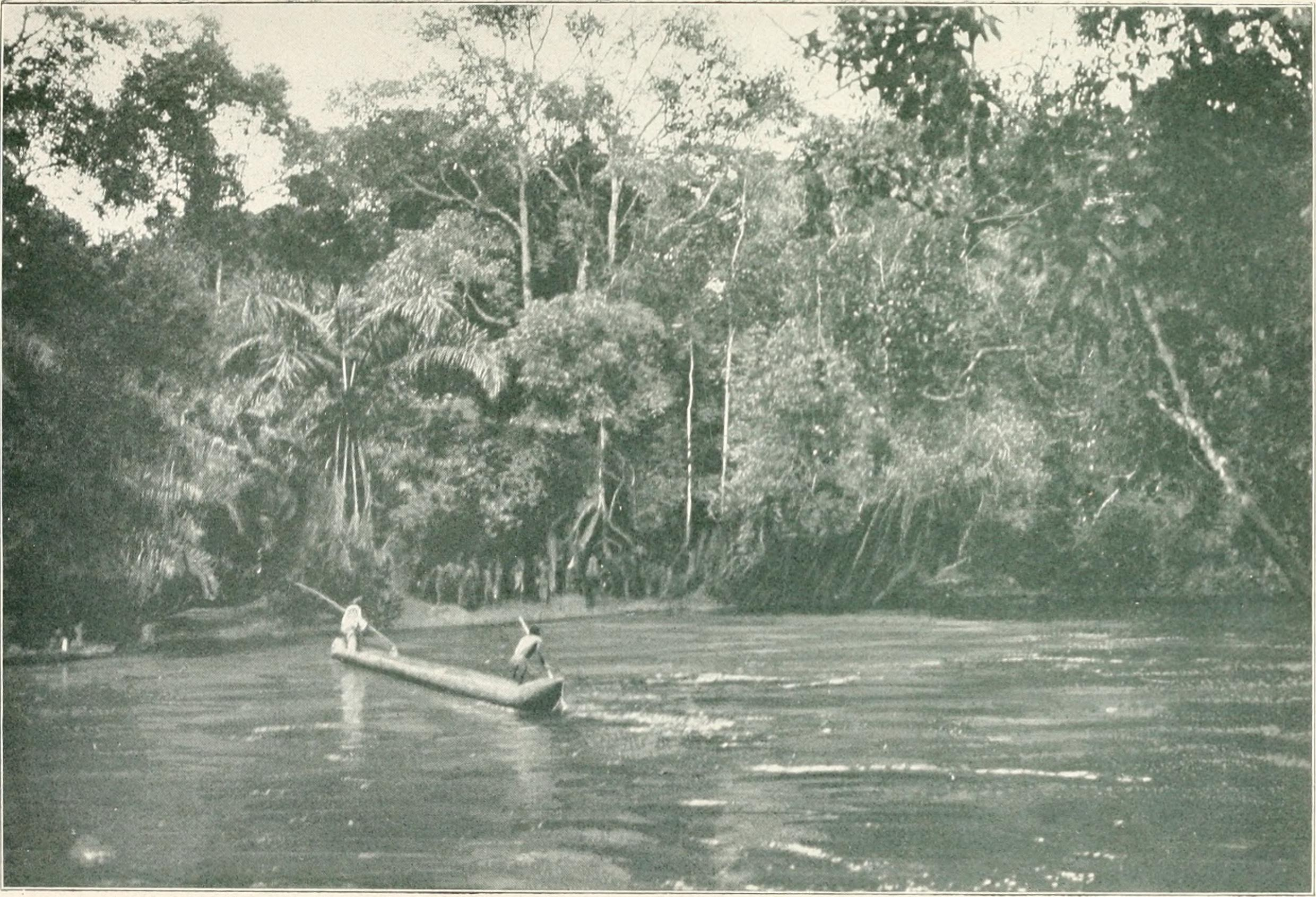 Crossing the Bumba, 1911 Title: From the Congo to the Niger and the Nile : an account of The German Central African expedition of 1910-1911 Year: 1913 (1910s) Authors: Adolf Friedrich, Duke of Mecklenburg-Schwerin, 1873-1969 Deutsche Zentral-Afrika-expedition, 1910-1911 Subjects: Africa, Central -- Description and travel Publisher: London : Duckworth Text Appearing Before Image: hey werewith the labyrinth of channels, along which they shottheir tiny canoes at the speed of a galloping horse. I was eager to explore tliis district, but was obligedto relinquish the idea for two reasons. In the firstplace we were already overdue, according to the timeallotted to our journey, and in the second place therewere all kinds of rumours current which were creditedby Europeans as well as negroes, and which made itquite clear that an expedition into the heart of theMaka district was not to be thought of. Later on Icame to the conclusion that some of the districts throughwhich we waded on the plateau, in the bend of theDjah, supphed a sujfficiently correct impression ofthis country which was closed to us for poHtical reasons.At any rate, neither Mildbraed nor I had the leastdesire to make the acquaintance of any more swamps. The above-mentioned rumours referred to a Europeanagent of an English factory who was said to have beenmurdered and eaten five days before my arrival in Text Appearing After Image: '